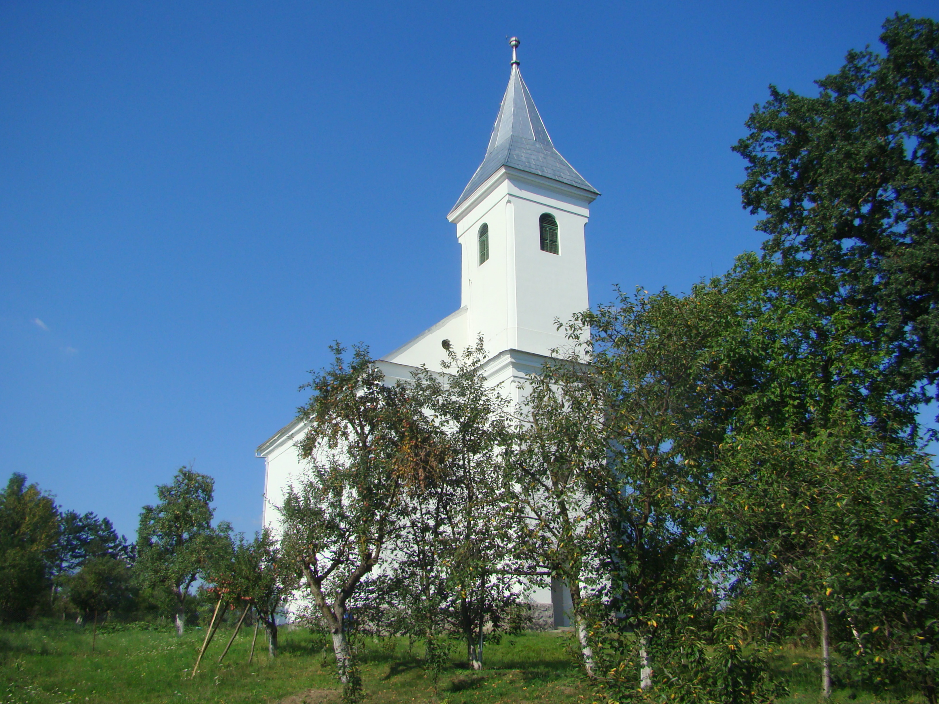 Reformed church in Șieu, Bistrița-Năsăud county, Romania